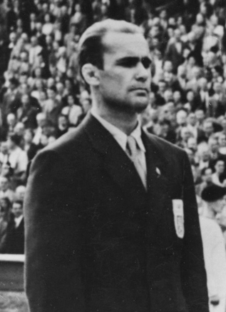 Reino Kangasmäki, Pietro Lombardi, Kenan Olcay at the London Olympics